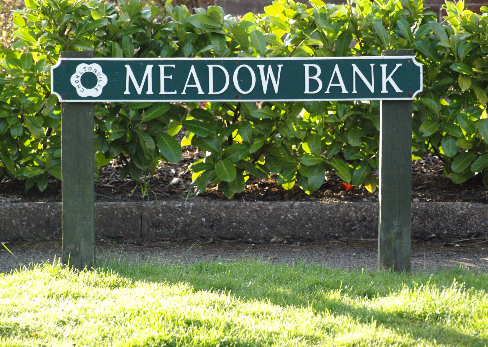 Meadow Bank road sign on the Chorltonville estate, Manchester, UK.